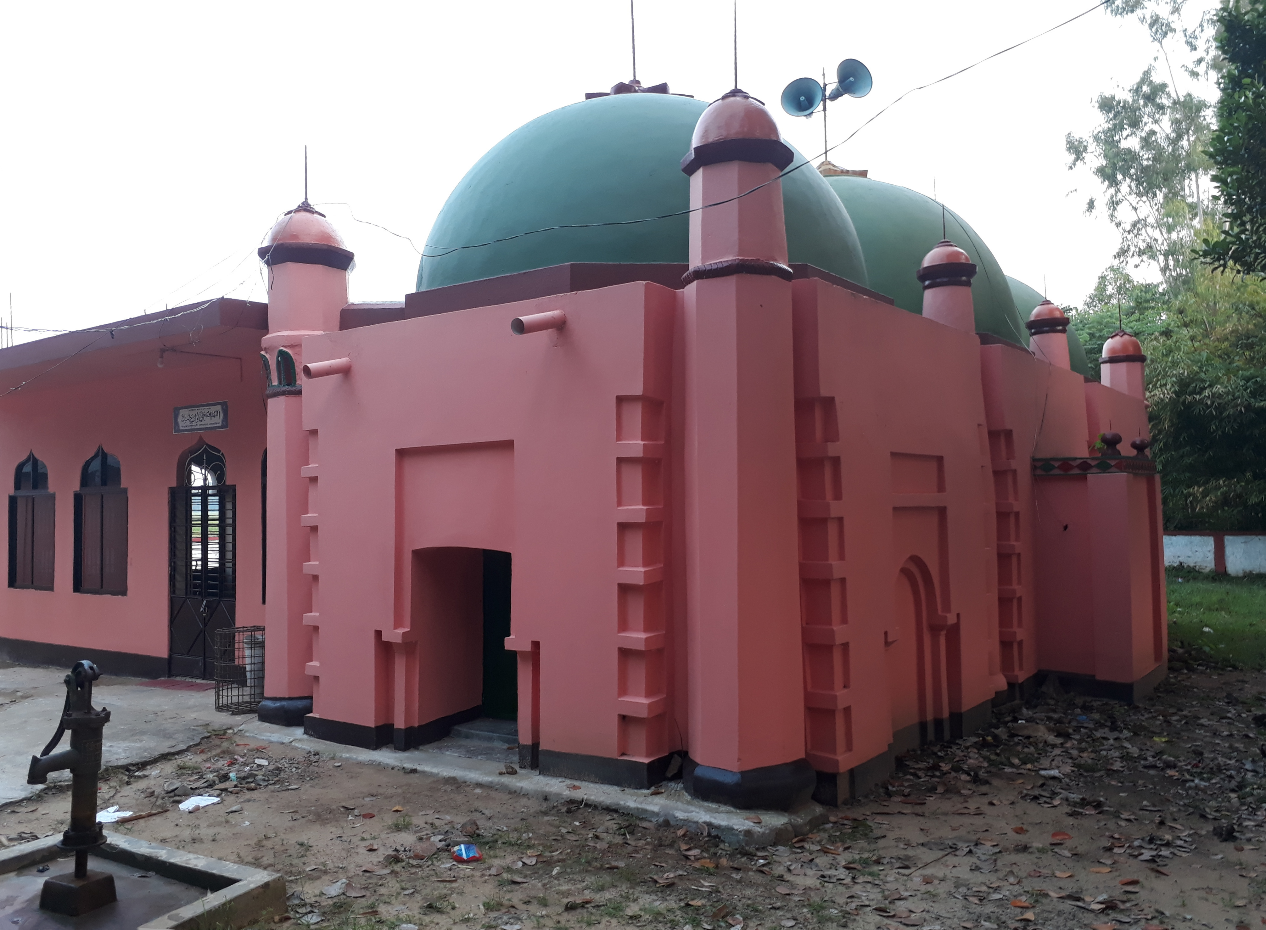 Sreemangal ancient mosque Аҧсшәа: Sreemangal ancient mosque